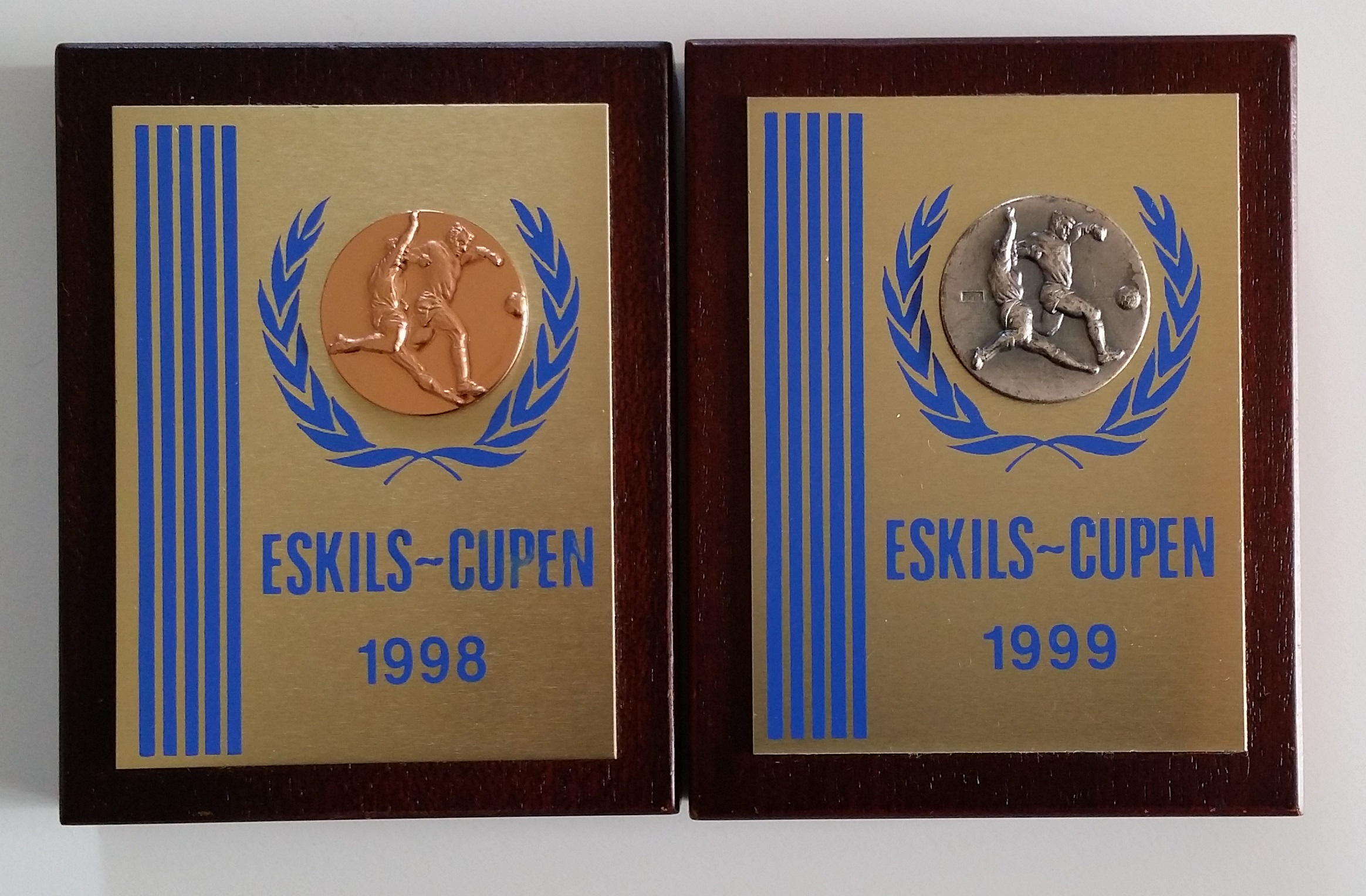 A bronze trophy (3rd place in 1998) and a silver trophy (2nd place in 1999) from the Swedish youth football tournament Eskilscupen.